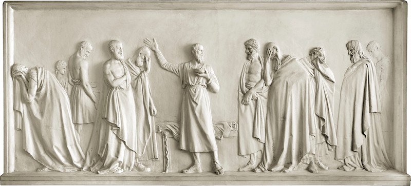 This is one of the three scenes devoted to the death of Socrates, as narrated by Plato in Phaedo. For these scenes Canova drew inspiration from Cesarotti’s translation for these subjects, depicting them as a kind of layman’s Stations of the Cross. The sculptor completely foregoes narration, eliminating all decorative elements and focusing entirely on tersely rendering the event, with the intention of representing the classical spirit that is the well-spring of his art. The bas-relief was reproduced in an engraving by Tommaso Piroli (engraver) and Vincenzo Camuccini (draughtsman): copperplate etching retouched with burin; 228 x 505 mm. Regarding the Rezzonico bas-reliefs, see entry for Justice.